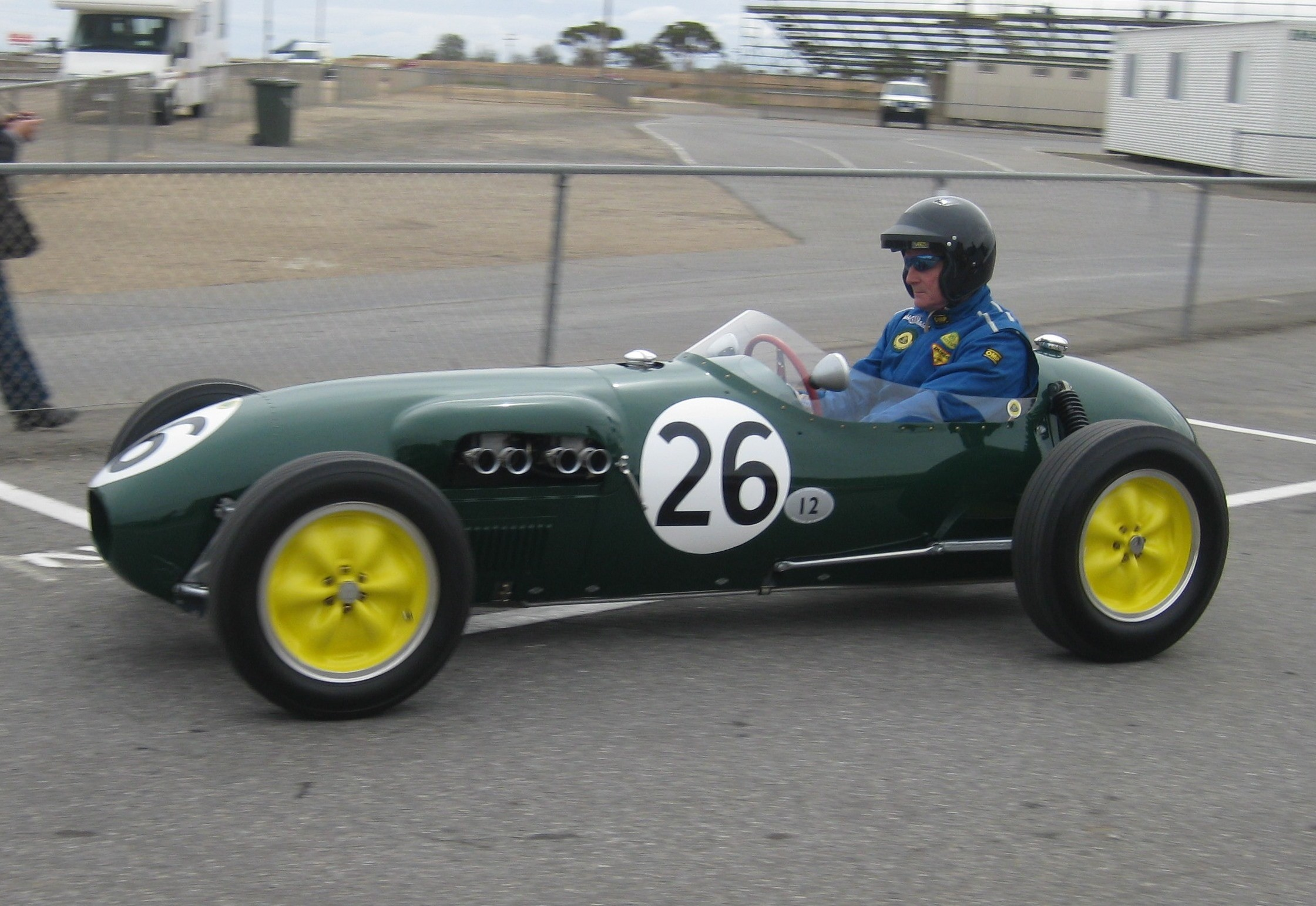 Lotus 12 Chassis No. 353 at Mallala Motor Sport Park on 30 March 2013